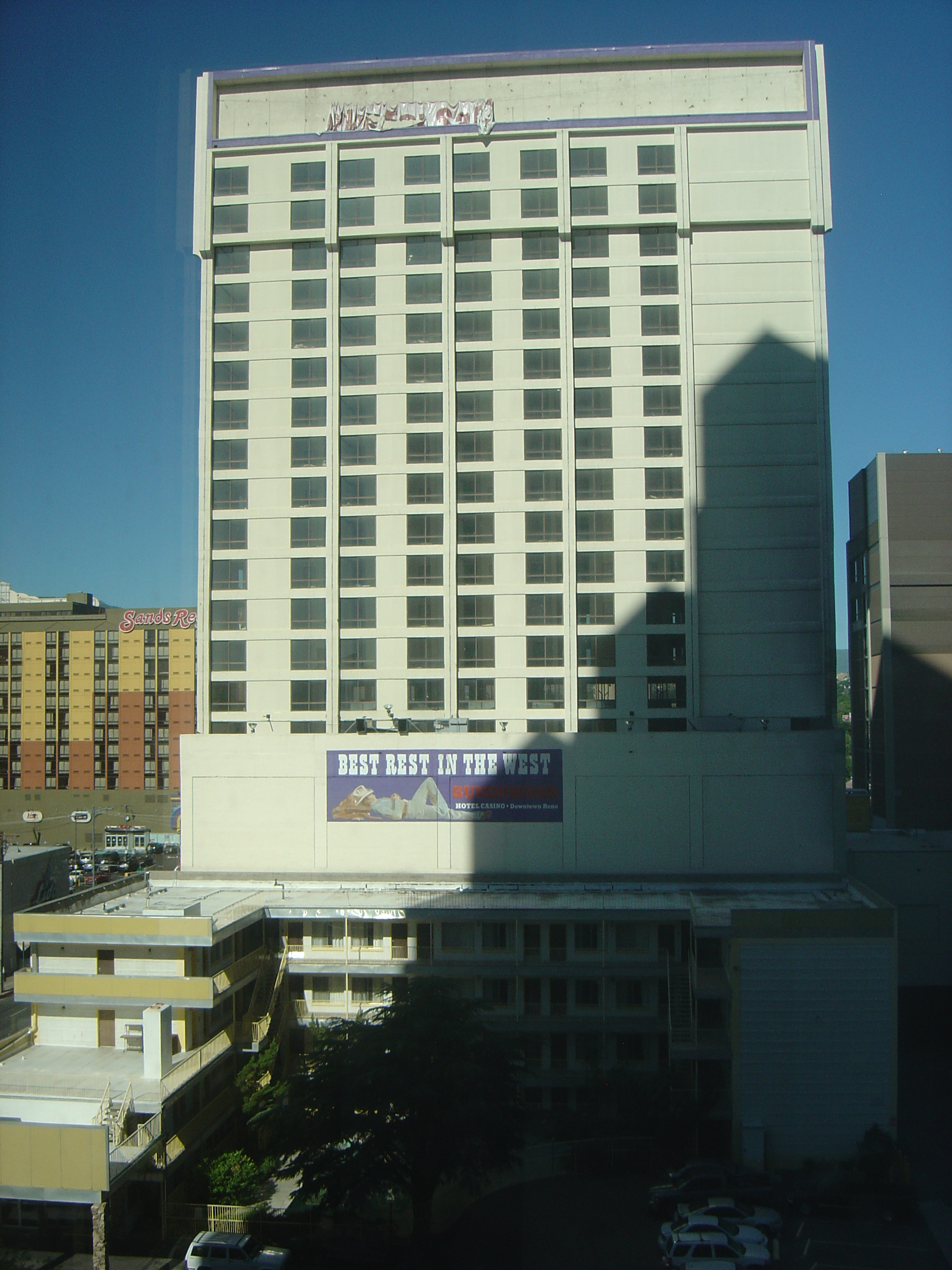 The southern tower of the closed Sundowner hotel-casino in Reno.